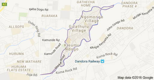 dd